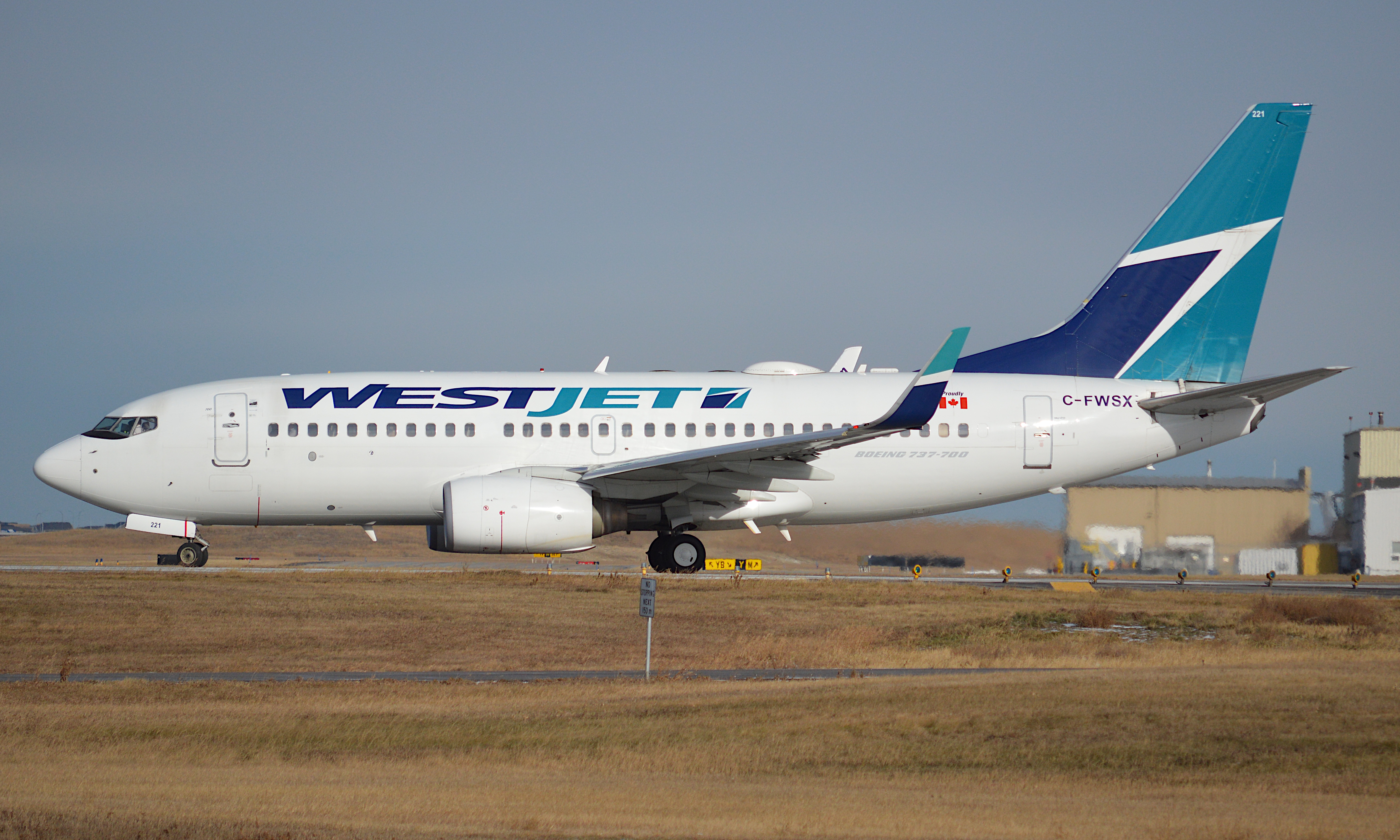 In the nice fall air, WestJet Boeing 737-700 taxis for takeoff on runway 15R at Calgary International Airport, November 9, 2018.